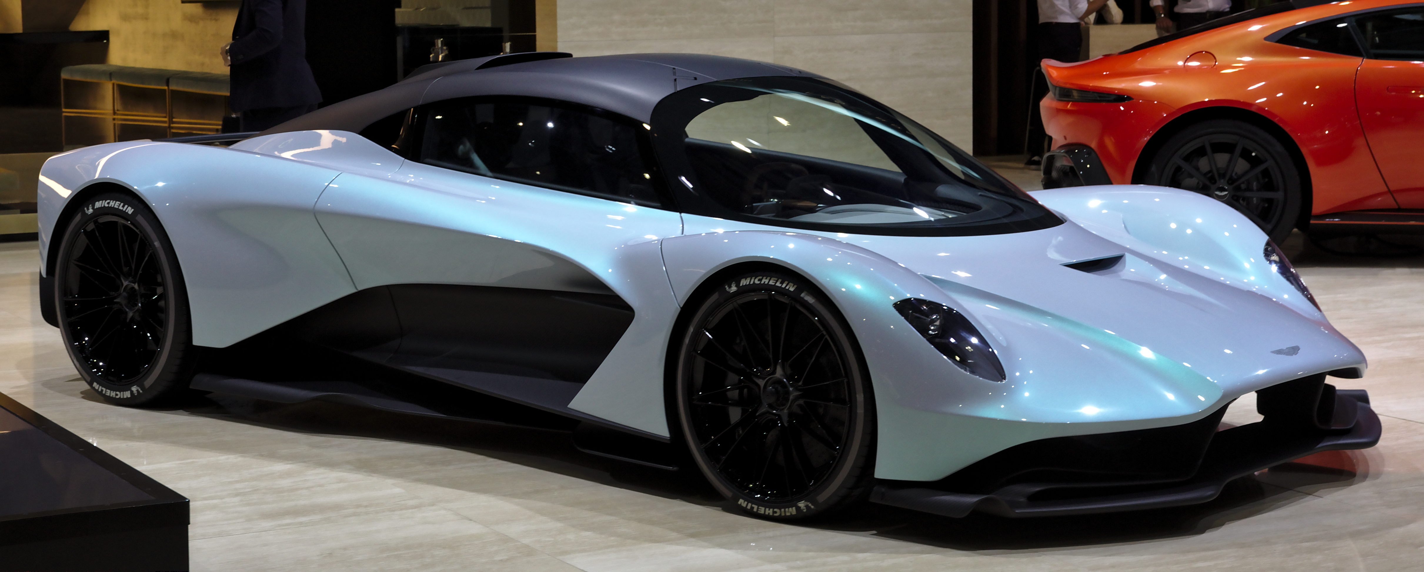 Aston Martin AM-RB 003 at Geneva Motor Show 2019